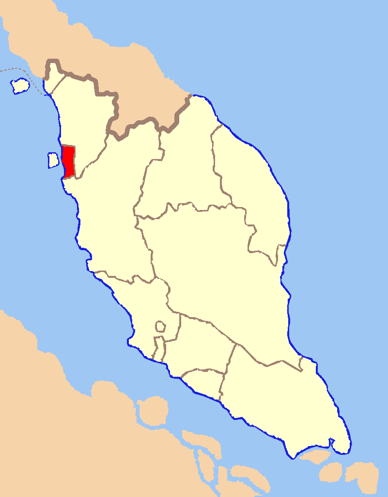 Map of Malaysia with Seberang Perai highlighted